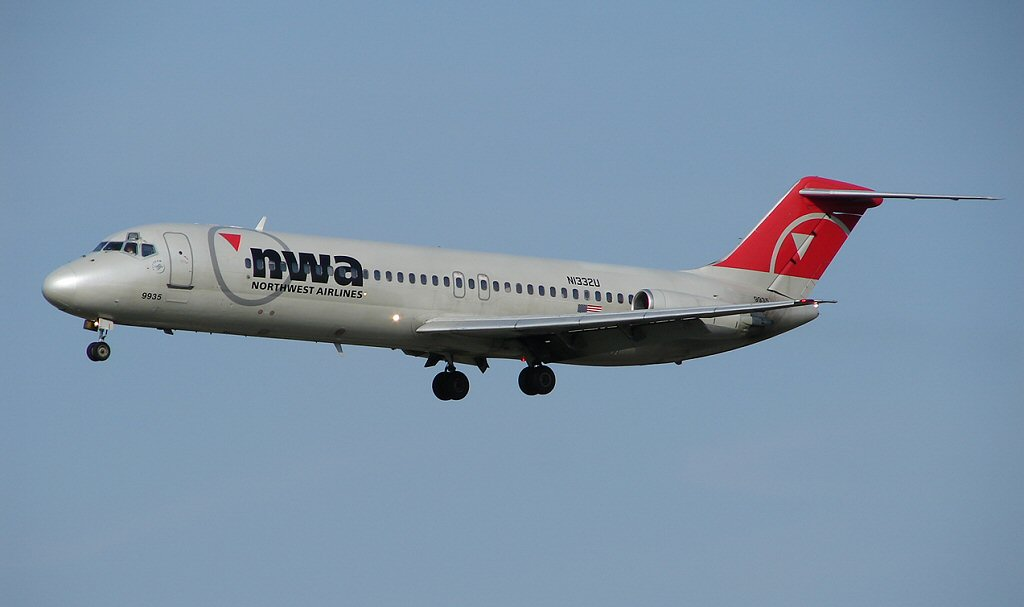 one of the regulars at MSP